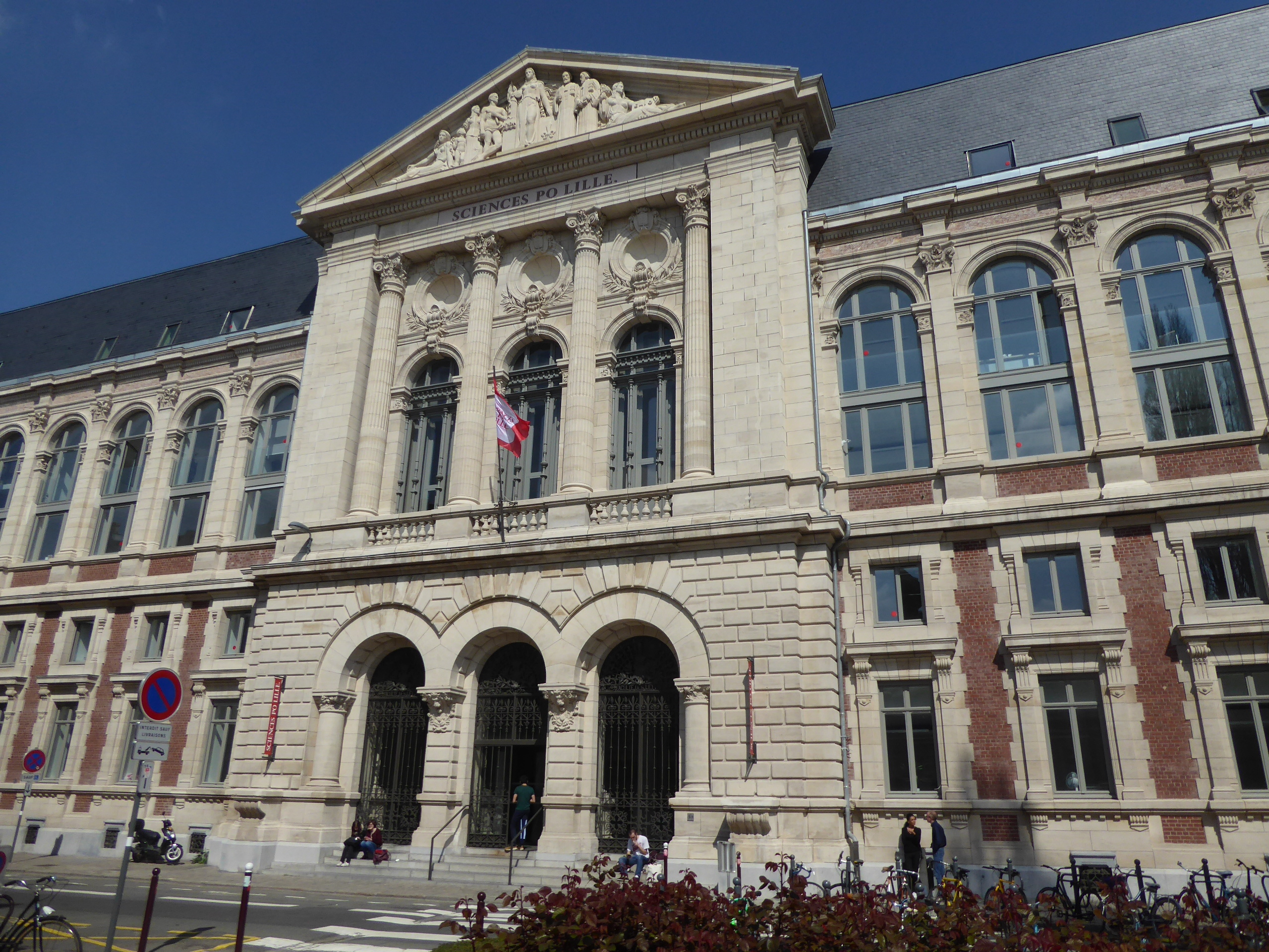 Facade of Sciences Po Lille, former Faculty of Arts (Faculté de lettres) of the University of Lille. (Lille, France.)